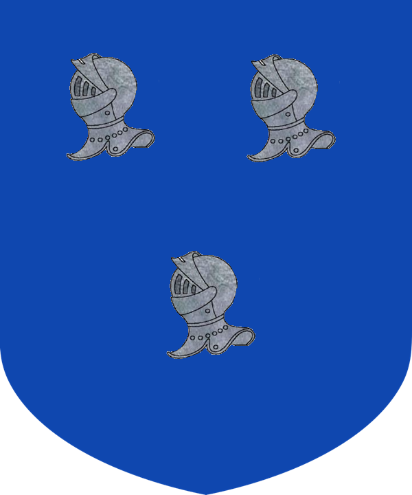 Antelmi family shield